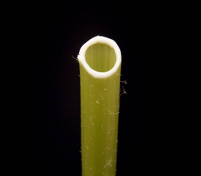 Taraxacum sect. Ruderalia (Syn. Taraxacum officinale agg.)